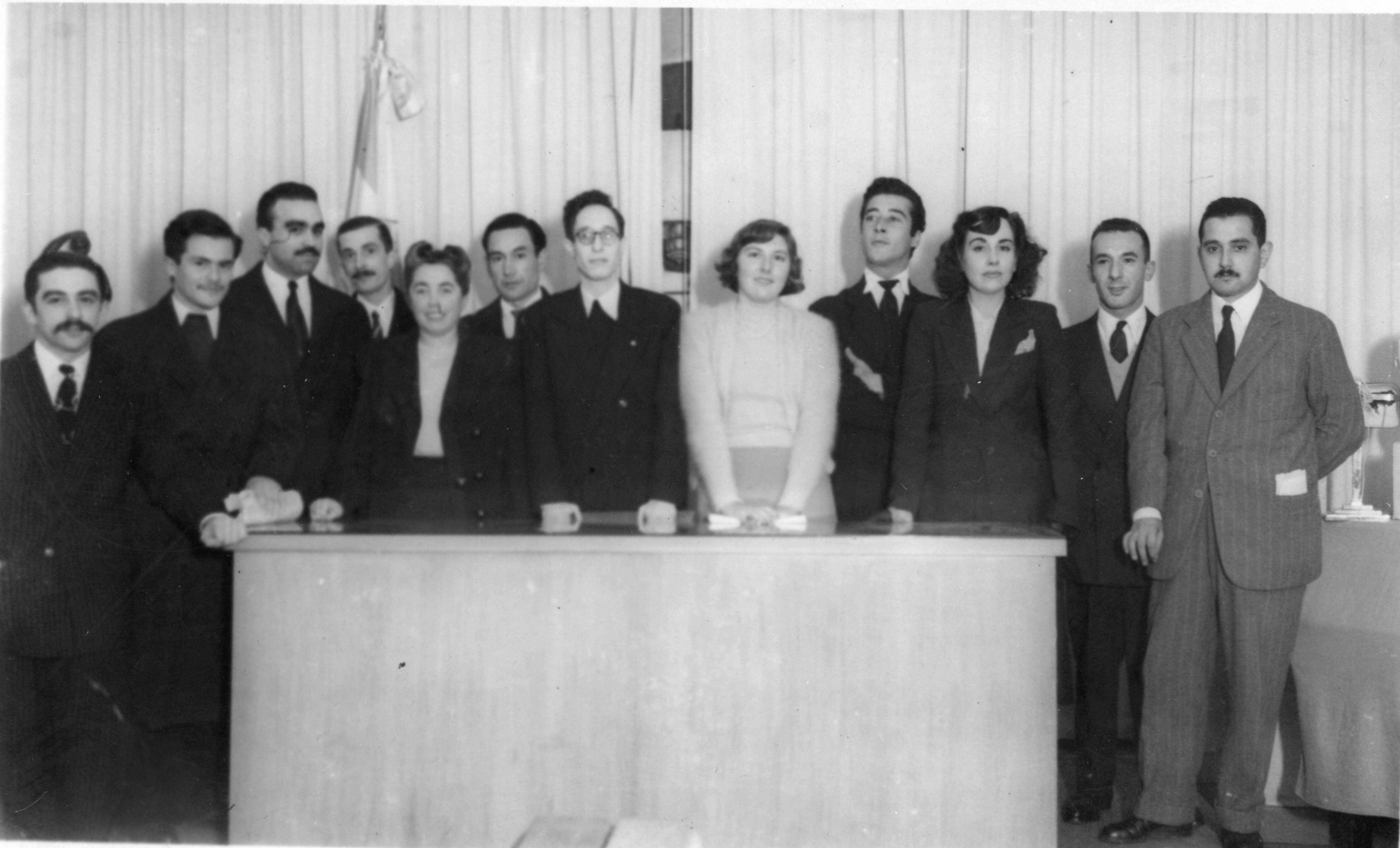 Ediciones del Bosque, writers of La Plata, Buenos Aires, Argentina, ca 1950. From Left to Right: Pablo Atanasiú, Apolinario H. Sosa, Norberto V. Silvetti, Horacio Ponce de León, Josefina Passadori, Julio Molina, Raúl Amaral, María Dhialma Tiberti, Roberto Speroni, Aurora Venturini, Pedro Vidal Sarmiento, Alberto Ponce de León.